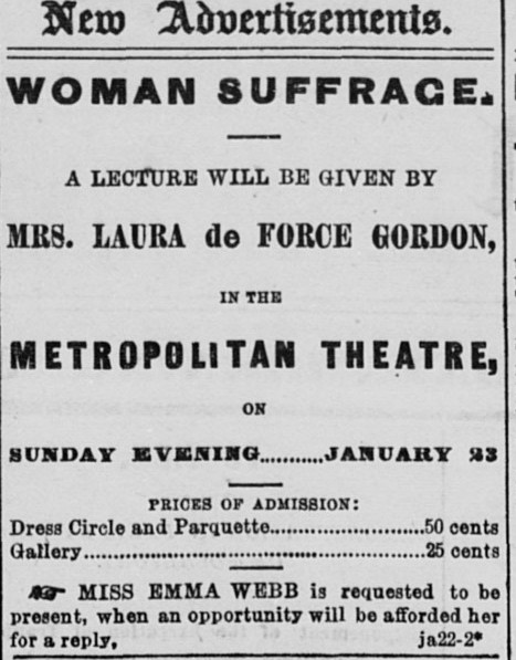 Advertisement for a public talk on woman's suffrage by Laura de Force Gordon.